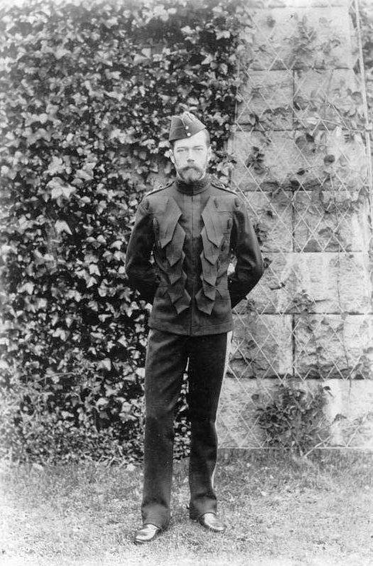 Tsar Nicolas II